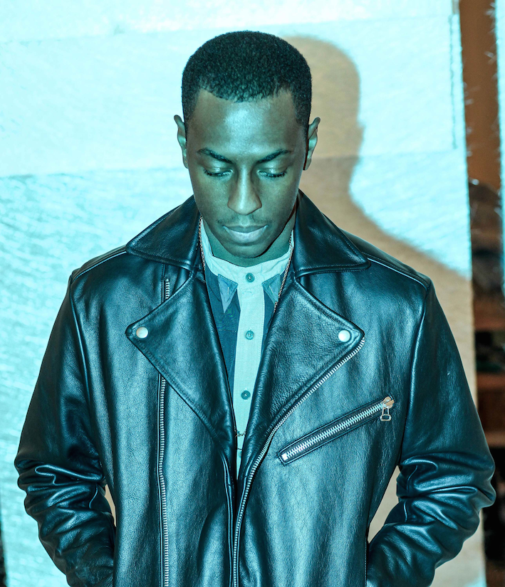 Spank Rock Press Photo by Thed Jewel, used with permission from Bad Blood Records.